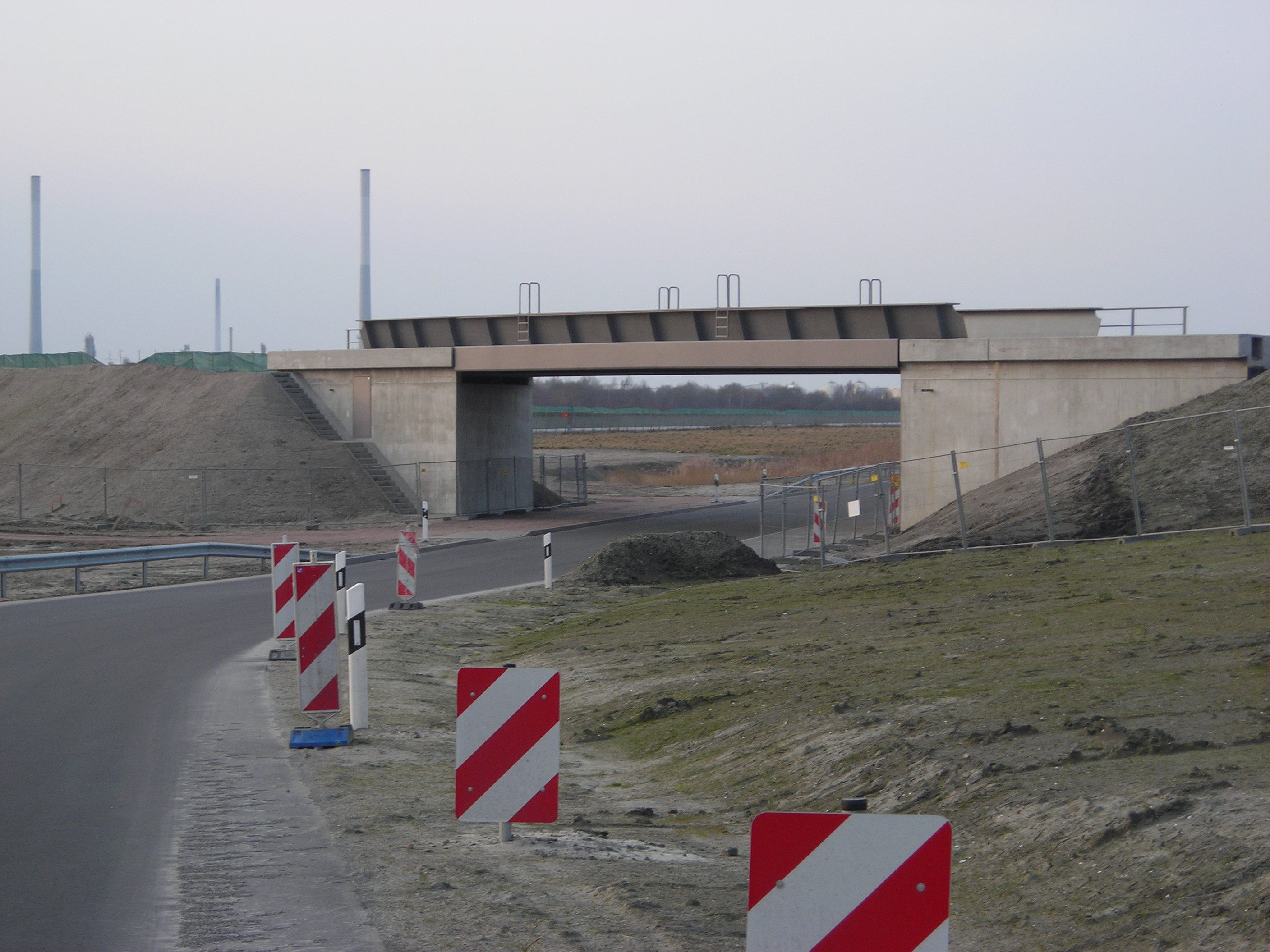 The new railway bridge for the JadeWeserPort